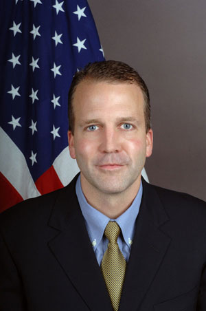 Daniel S. Sullivan, Assistant Secretary for Economic and Business Affairs (US State Department Photo)